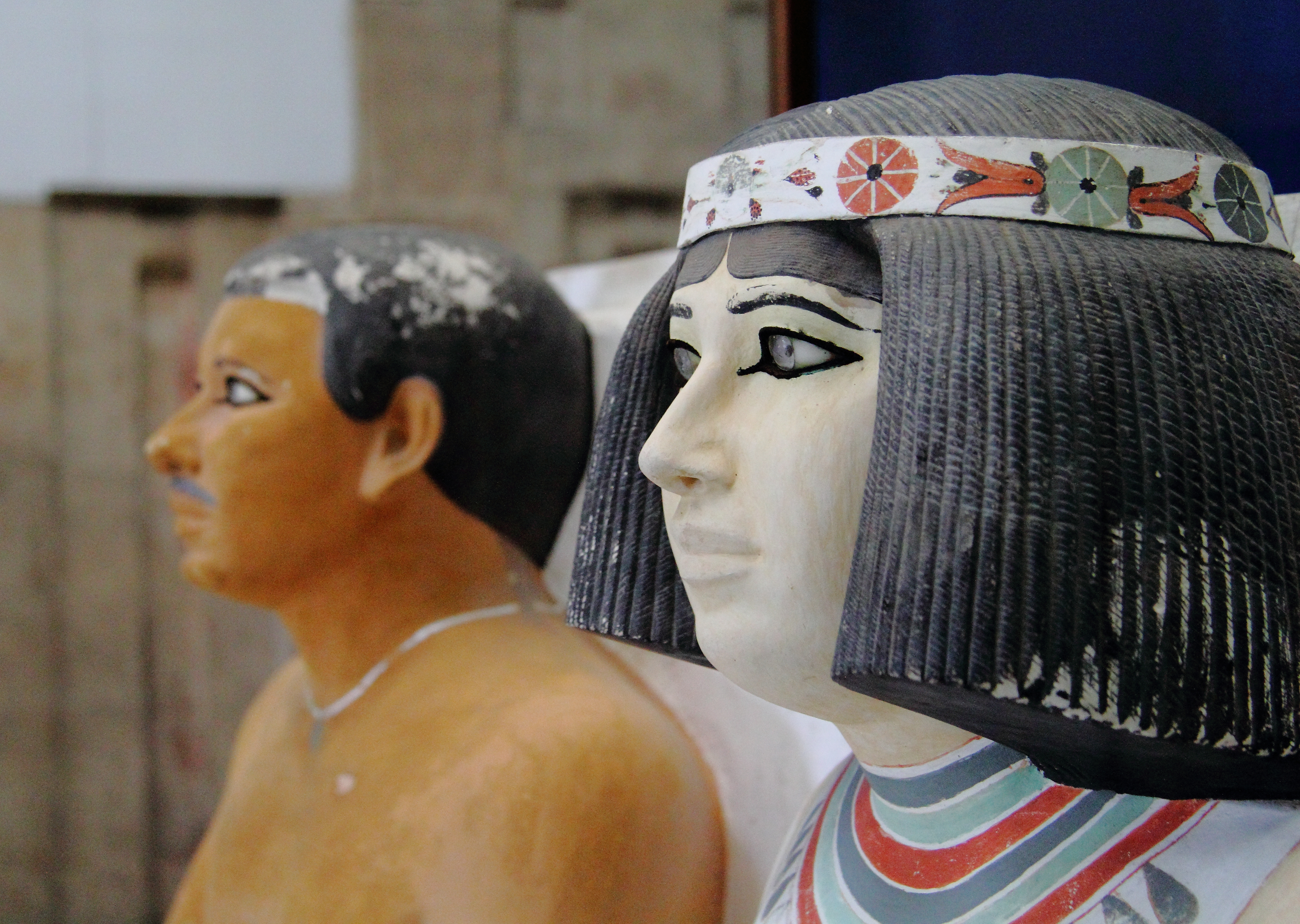 Egyptian Museum Cairo: Prince Rahotep and his wife Nofret, tomb statues from Meidum